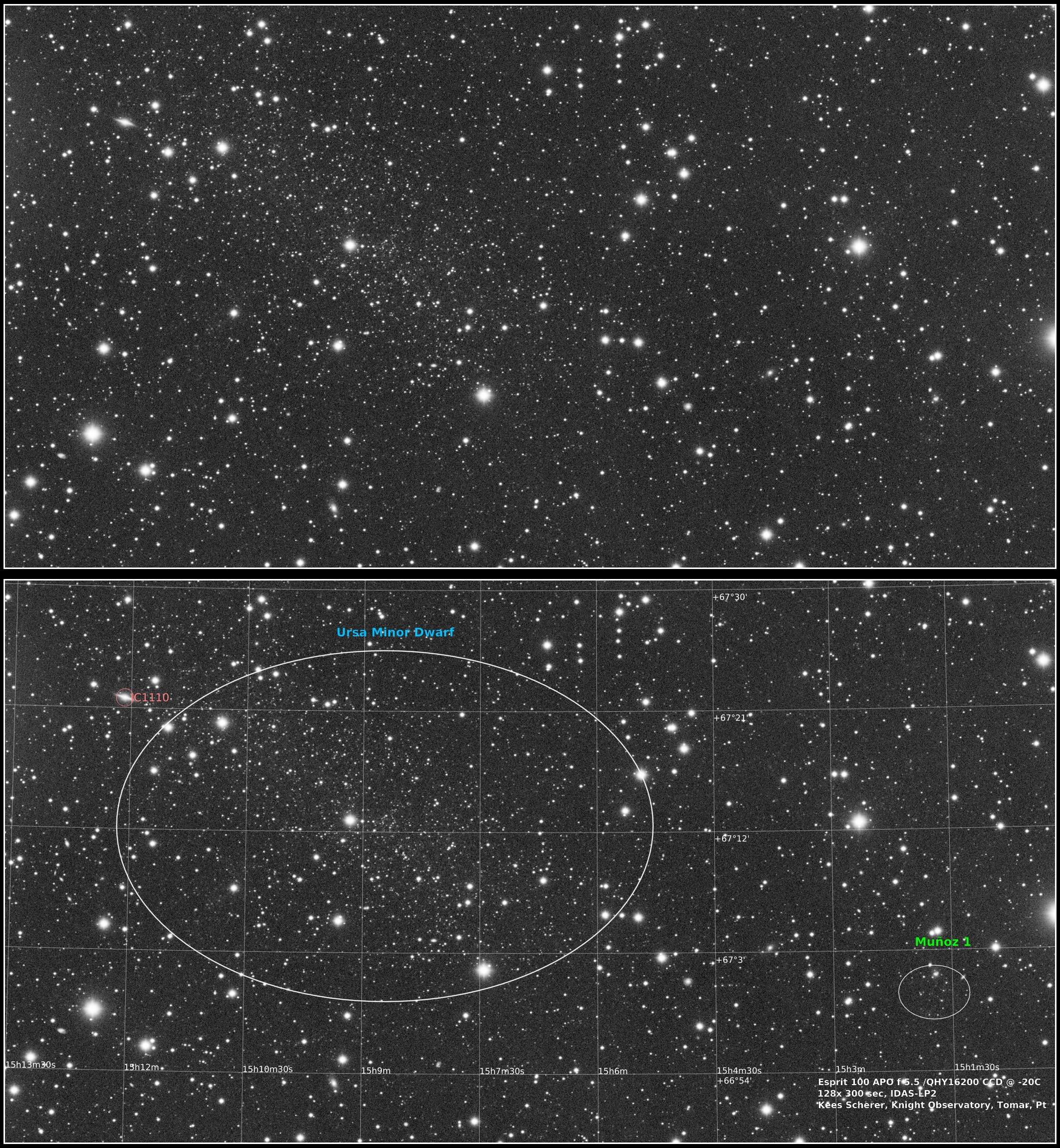 The Ursa Minor Dwarf Spheriodal Galaxy is the faintest known member of the local group of Galaxies with a surface brightness of 25.5 V-mag/arcsec^2. (ref 3). Distance is 225000 lightyears (ref 1) RA: 15h09m08.5 / Dec: +67d13m21 Imaged on 4,5,6,10 & 11 May, 2018 Esprit 100 APO Refractor+QHY16200CCD @-20C/ IDAS LP2 filter. ref 1) ref2 ) ref3)